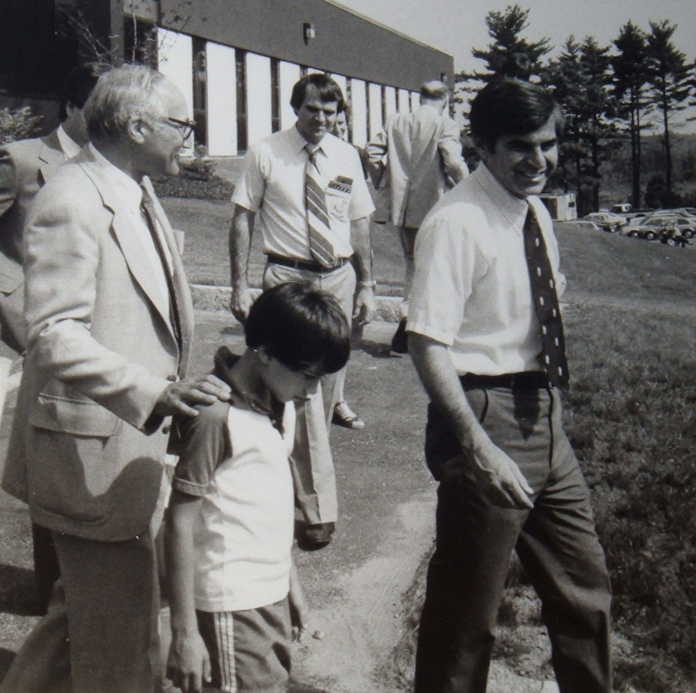 Philippe Villers and Michael Dukakis at the dedication of the new W:Automatix plant in Billerica, Massachusetts in 1983. Digital photograph of an original I took in 1983. Black and white print is marked July 1983 on back. --agr 21:08, 2 April 2006 (UTC)